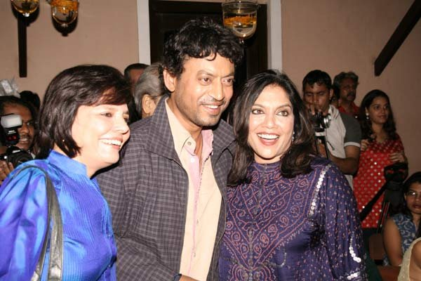 Release of the book The Namesake